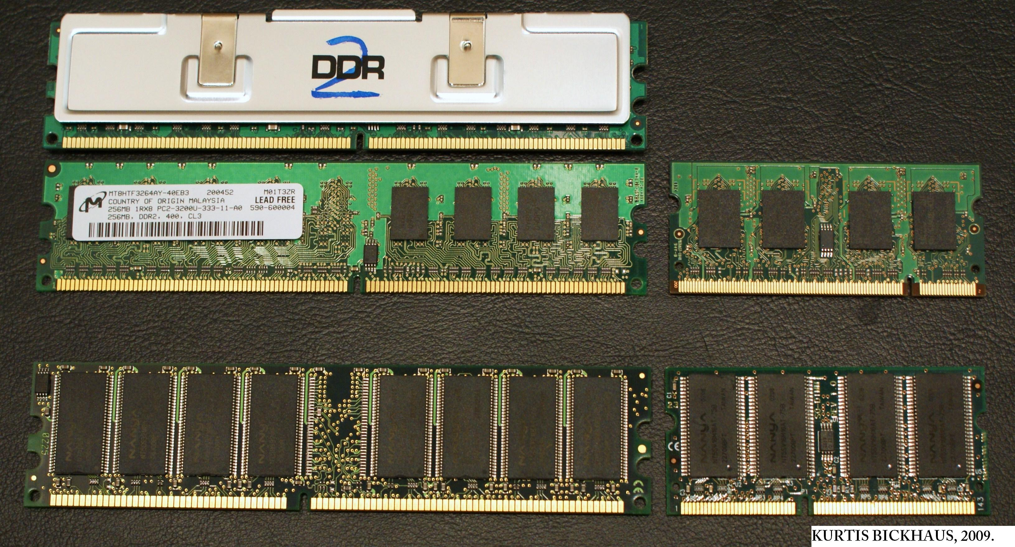 RAM memory modules. TOP L-R, DDR2 with heat spreader, DDR2 without heat spreader, Laptop DDR2, Desktop DDR, Laptop PC-100